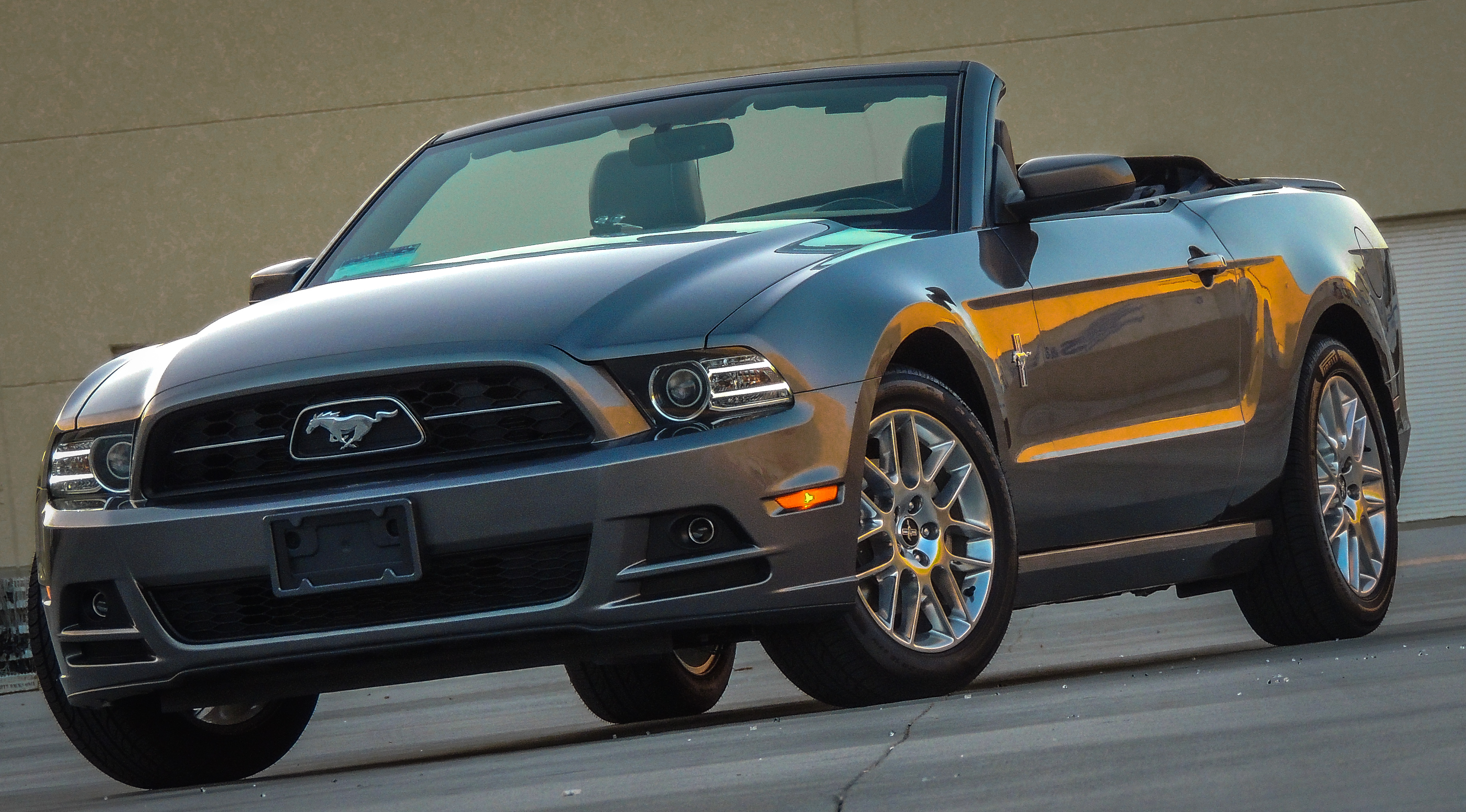 This is my photograph of my brand new 2014 Mustang convertible.